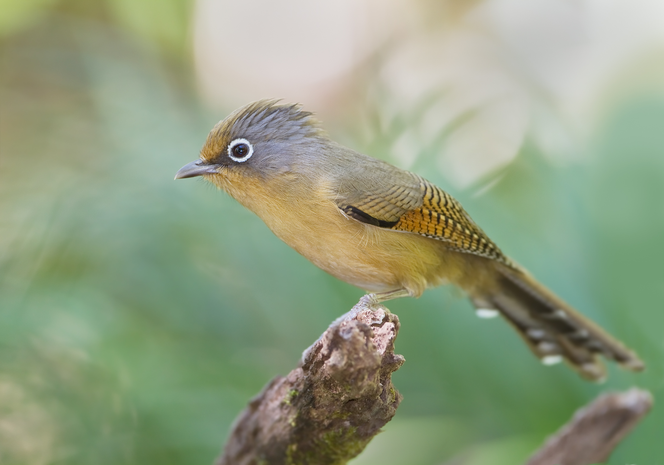 Spectacled Barwing (Actinodura ramsayi), Chiang Mai, Thailand